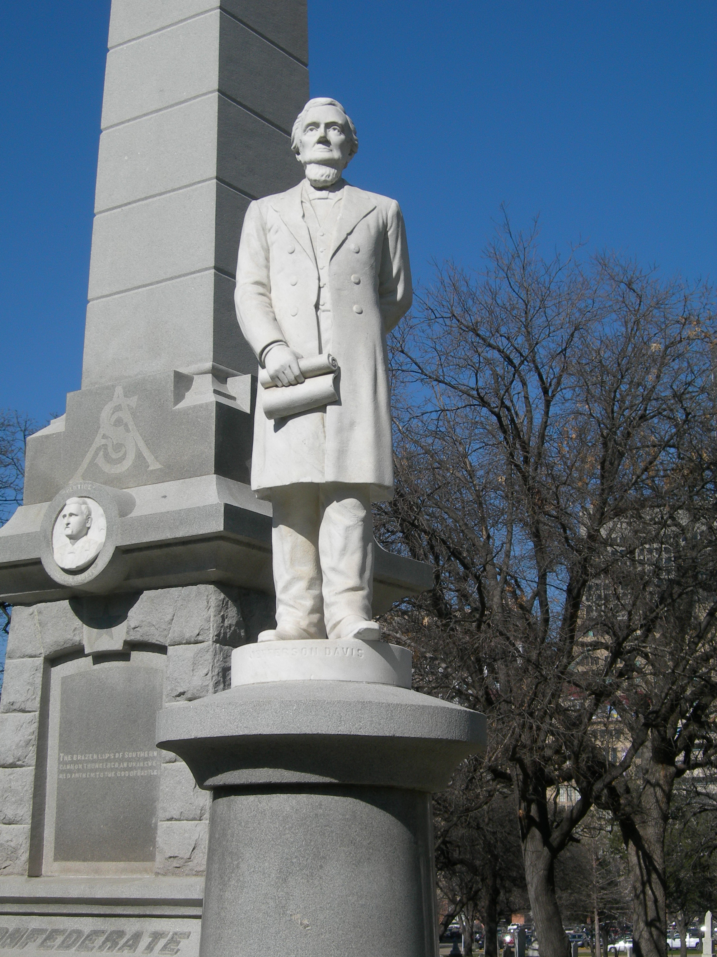 Jefferson Davis Dallas Confederate War Memorial